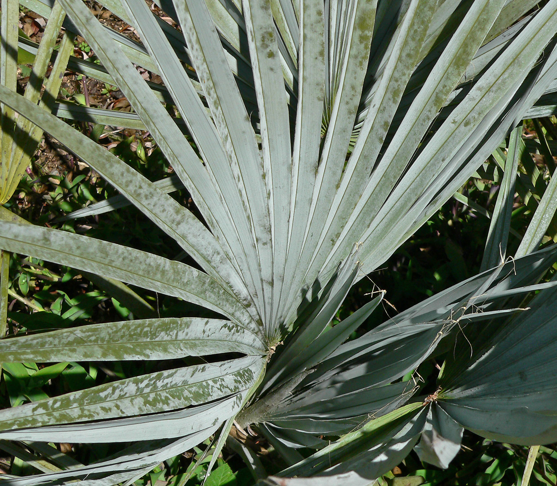 Brahea decumbens at the University of California Botanical Garden, Berkeley, California